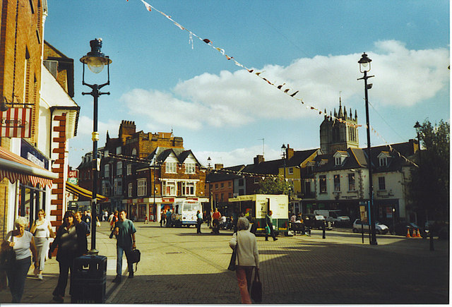 Market Place, Melton Mowbray. Melton is famous for its pork pies, Quorn Hunt and Stilton cheeses. The parish church dates from ca 1300.